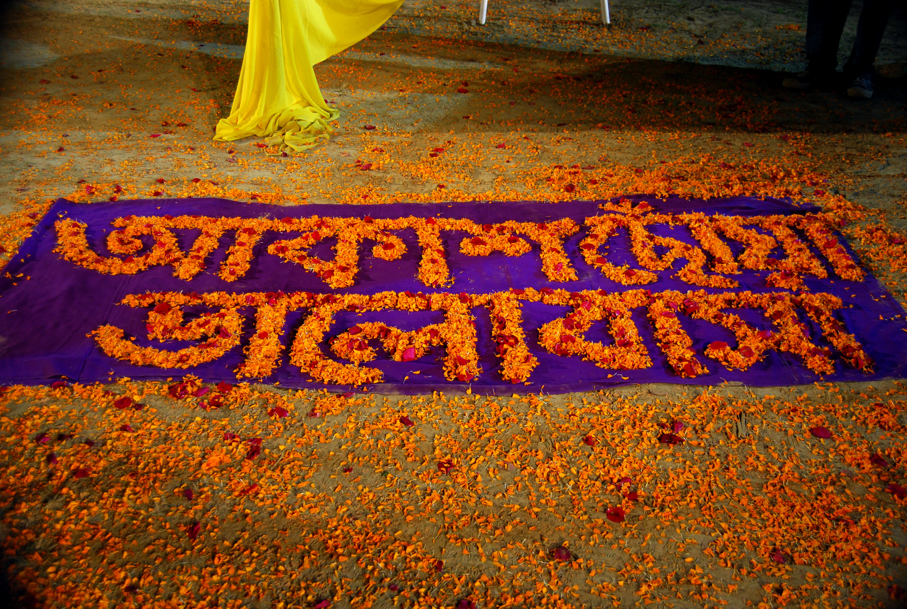 The set of 'Akash Chhoa Bhalobasa' at Rangamati hill district 2008